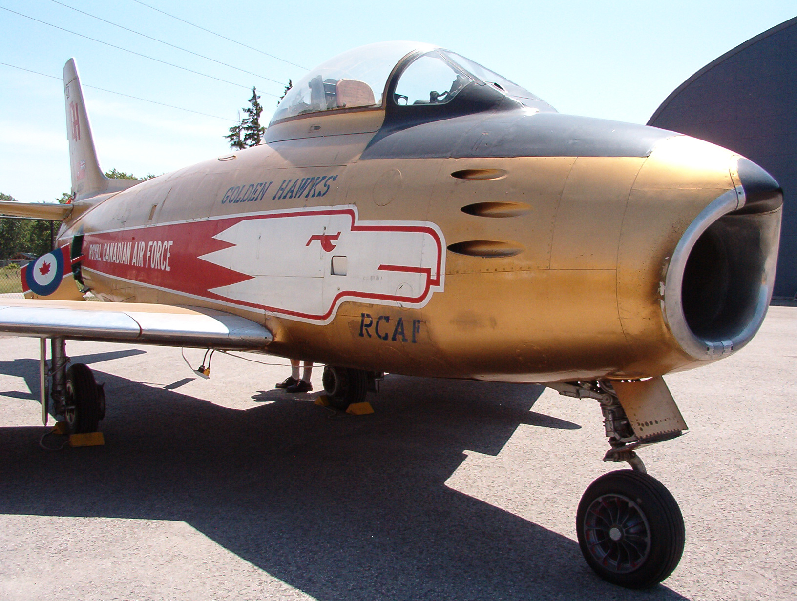 I took this image on Sunday, June 17, 2007 at the Canadian Warplane Heritage Museum in Hamilton, Ontario, Canada. It is for use in the Wikinews reporter attends warplane airshow in Hamilton, Ontario, Canada article.